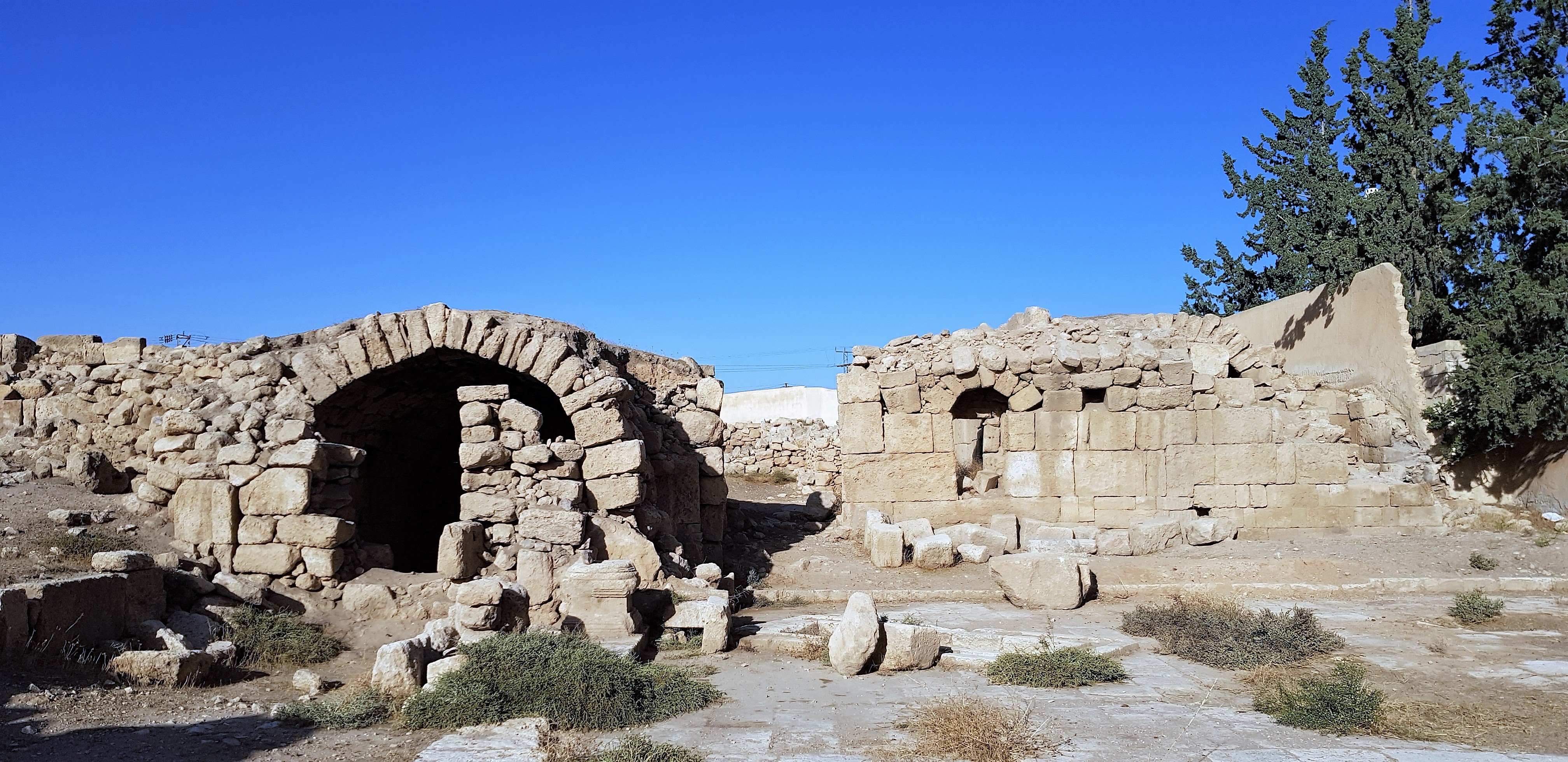 Front wall of a building at Qasr al-Qastal complex.